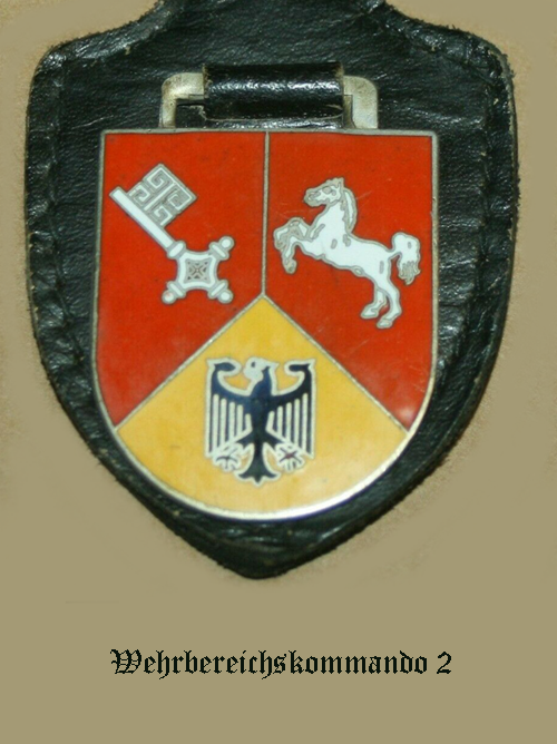 Internal coat of arms Stab Wehrbereichskommando II (WBK II) of the Bundeswehr (Armed Forces of the Federal Republic of Germany). → Remarks on naming and categorization scheme